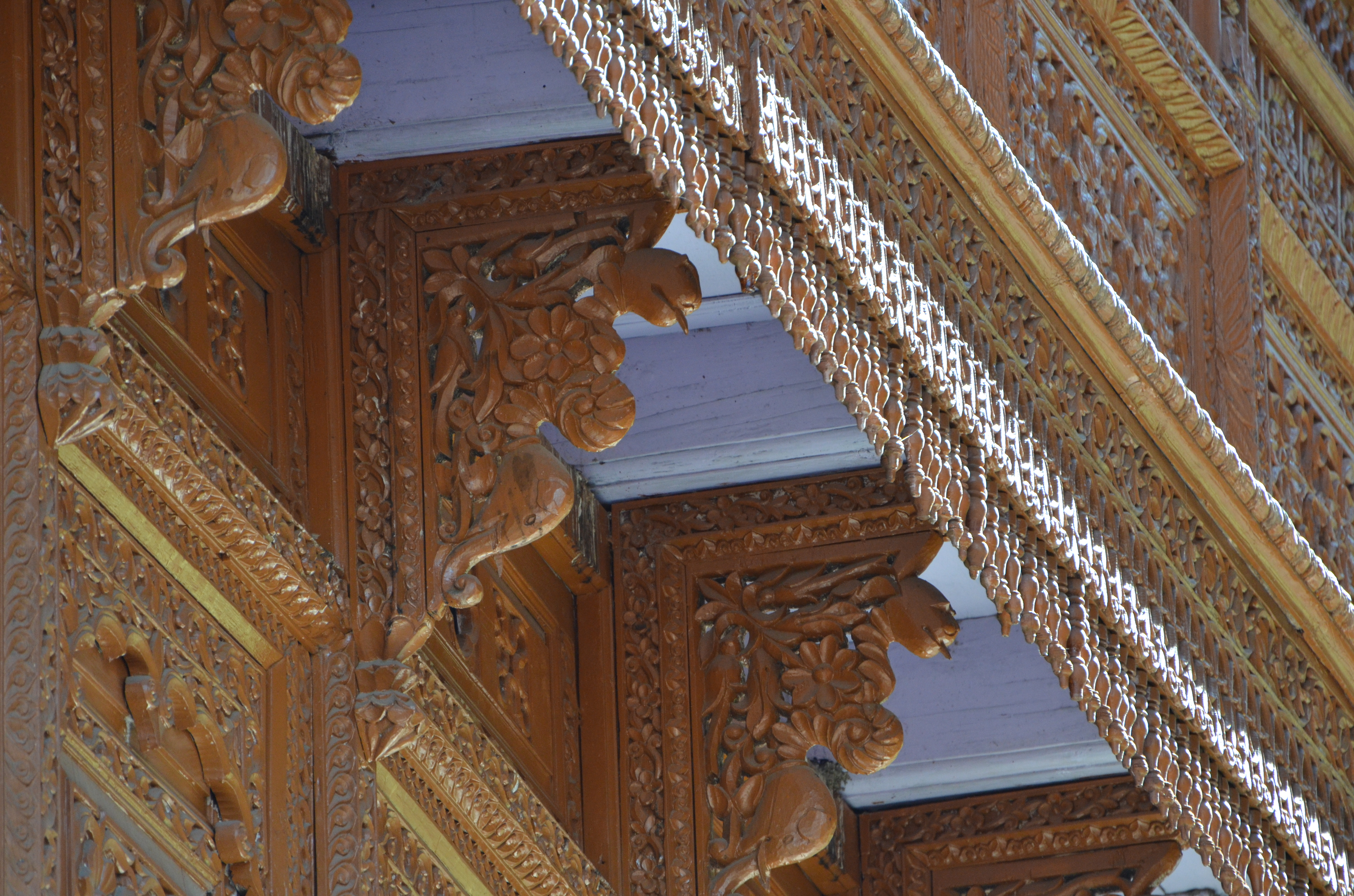 Close up of intricate work on the exterior of new temple complex